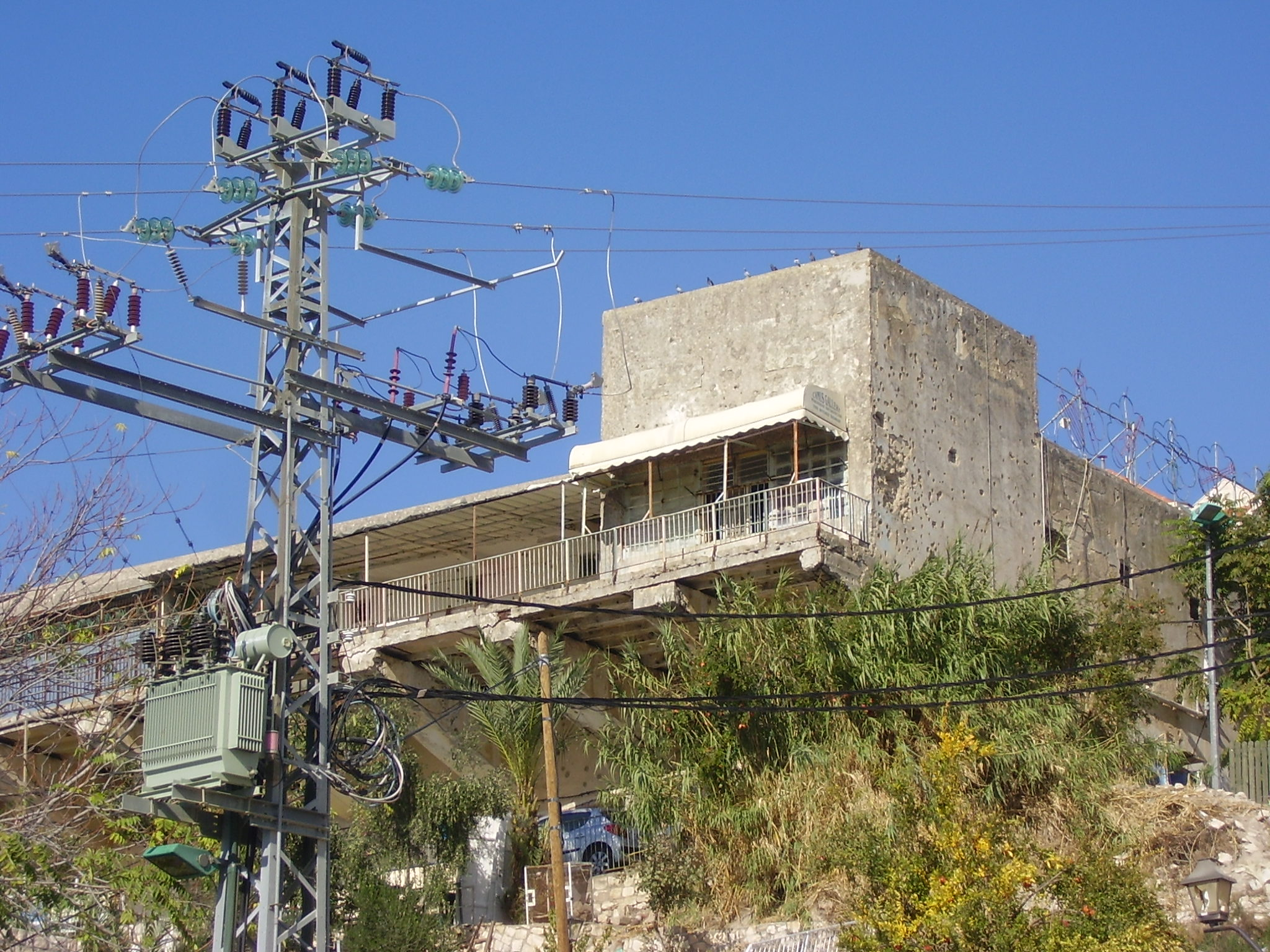 The old commercial center in Safed